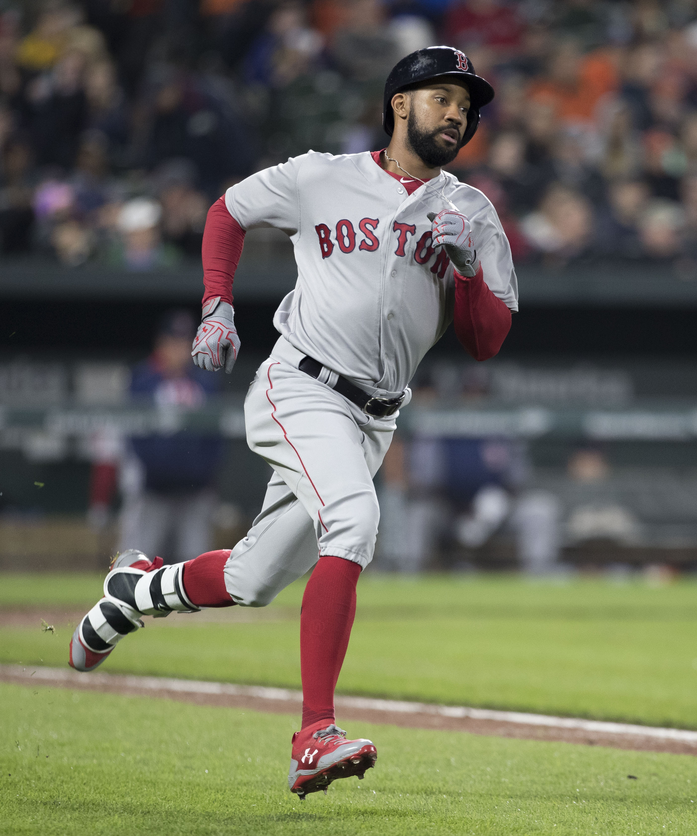 Red Sox at Orioles 4/22/17